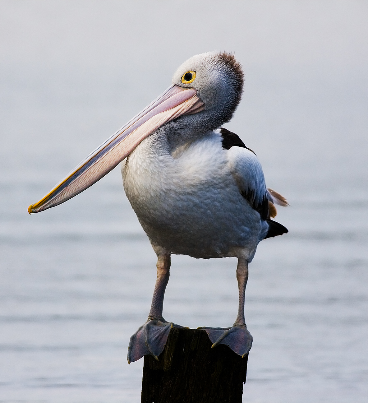 Australian Pelican (Pelecanus conspicillatus) perched in Tasmania, Australia